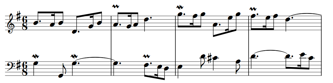 Musical quotation from Goldberg Variations (Variation 7) by Johann Sebastian Bach (1685–1750). Made using Sibelius 4 by Jashiin. The music quoted is in the public domain, and the image is hereby released into the public domain by Jashiin.